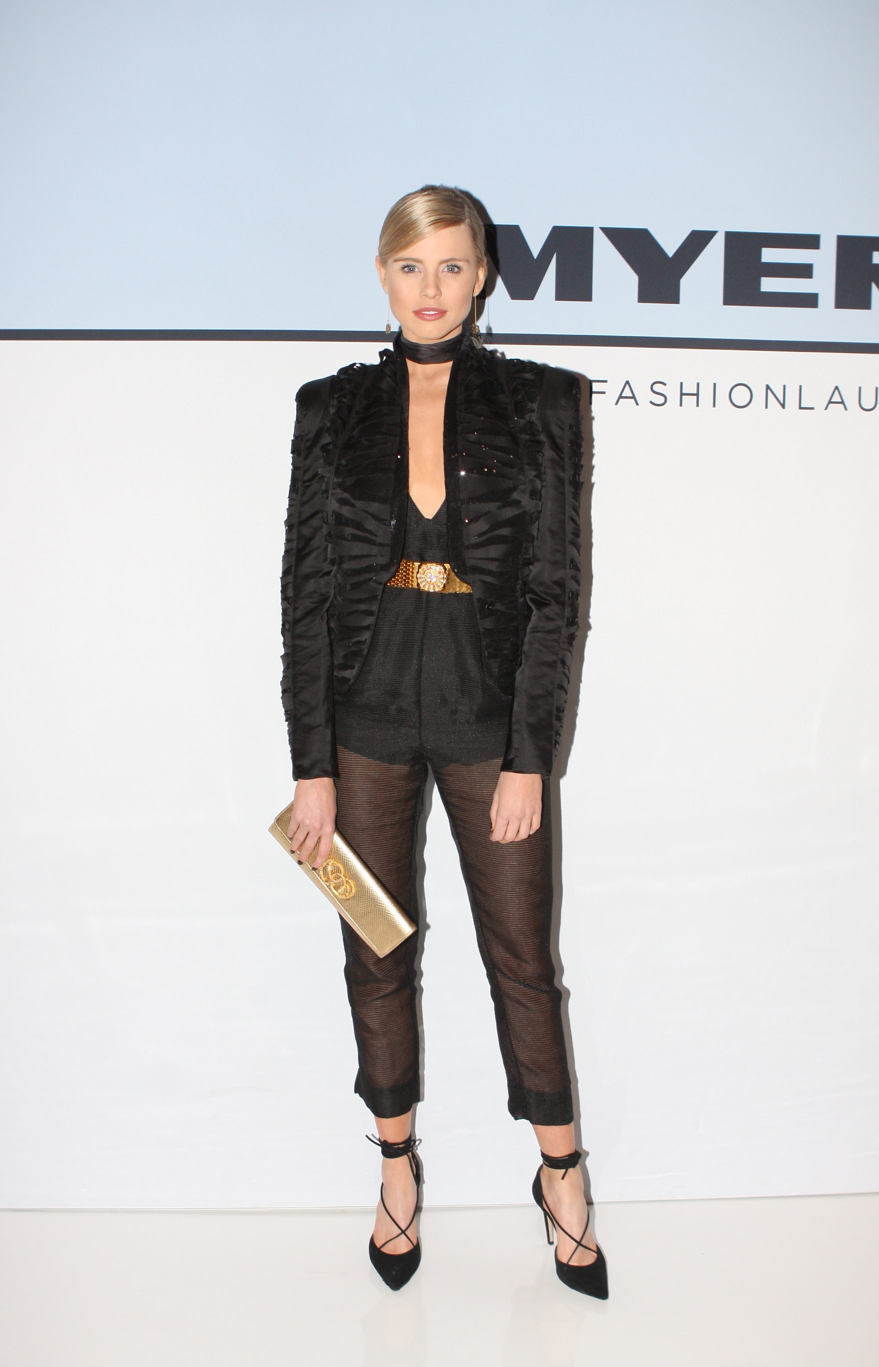 Tegan Martin at the Myer Fashion parade for the Spring/Summer 2015 Collection Launch